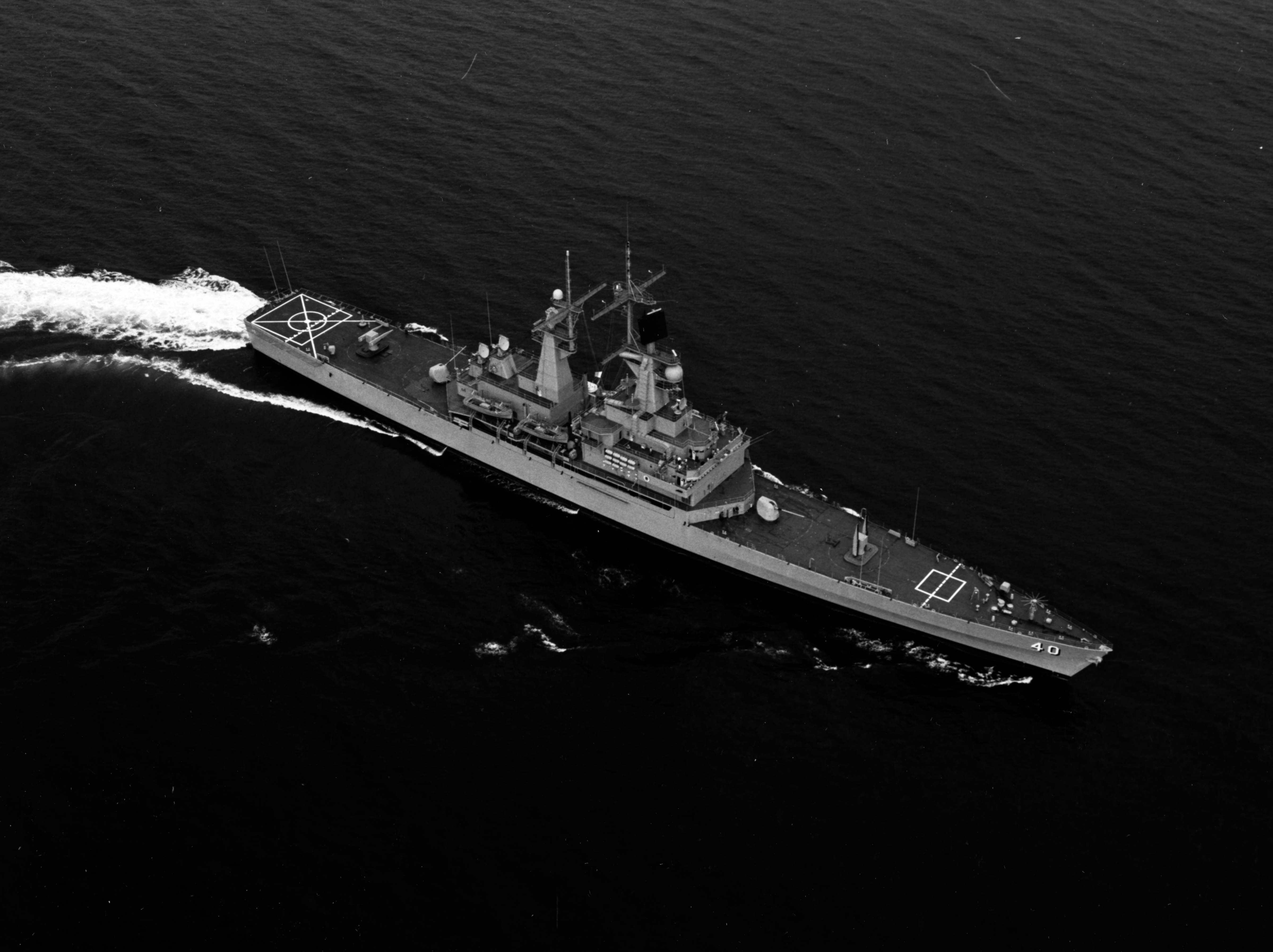 The U.S. Navy guided missile cruiser USS Mississippi (CGN-40) in the Atlantic Ocean in 1978. Mississippi was commissioned on 5 August 1978.